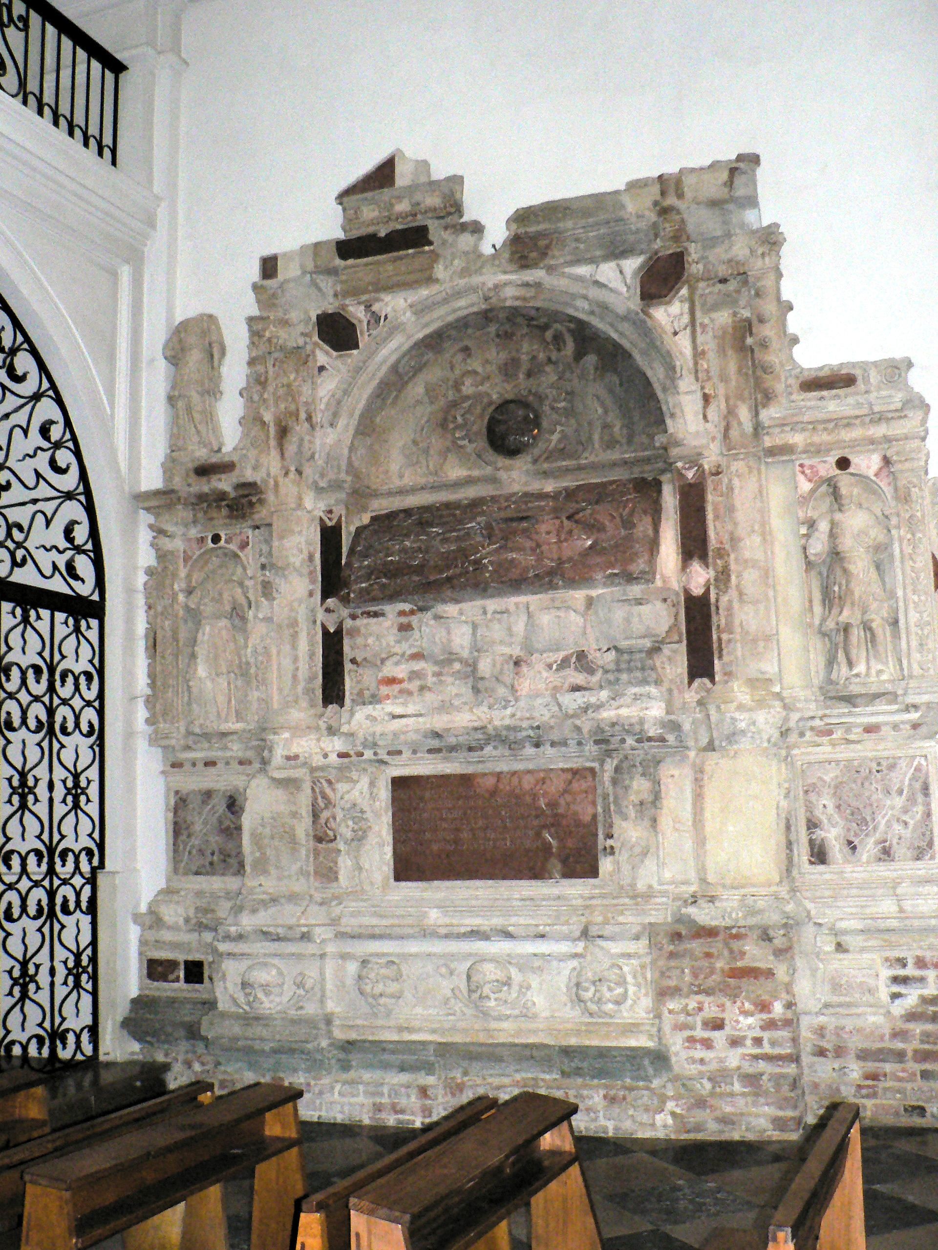 Photograph